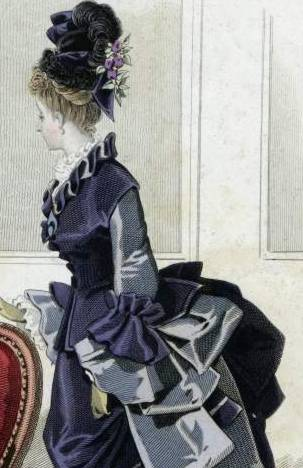 Dress of the First Bustle period, 1873